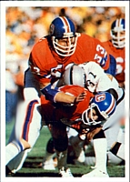 A football card from the 1986 Jeno's Pizza NFL football card stickers set of Denver Broncos linebacker Randy Gradishar tackling an Oakland Raiders running back in the 1977 AFC Championship Game on January 1, 1978. The card is numbered #47 in the set. The back of the card reads: 1977 WAS A SUPER YEAR FOR DENVER Linebacker Randy Gradishar (53) and safety Steve Foley double team an Oakland running back, as the Denver Broncos make the phrase Orange Crush famous in 1977. It was the colorful nickname of the Broncos' swarming defense, which set up two touchdowns as Denver overcame the Raiders 20-17 to win the AFC championship and go on to Super Bowl XII.